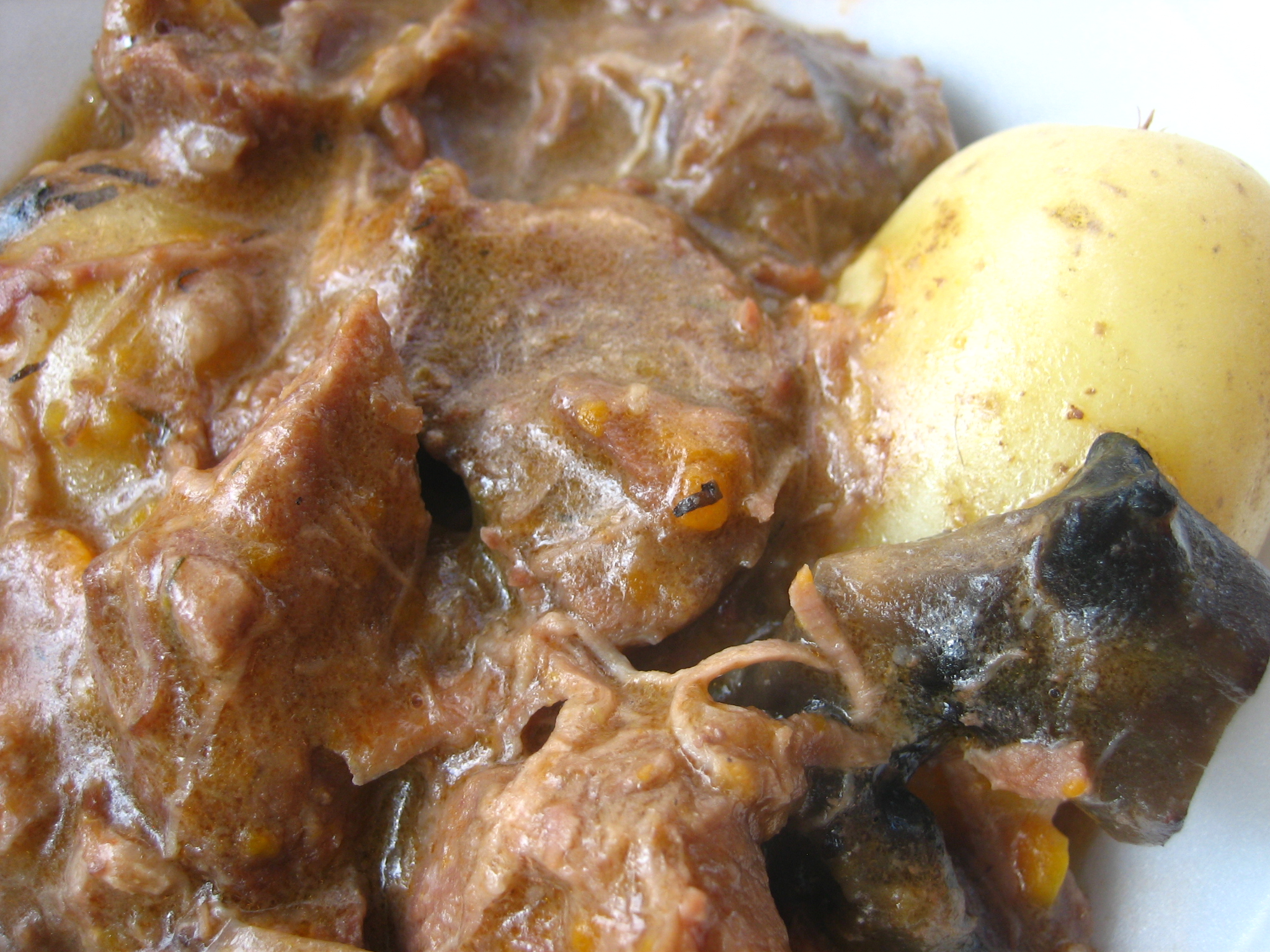 Daube of beef